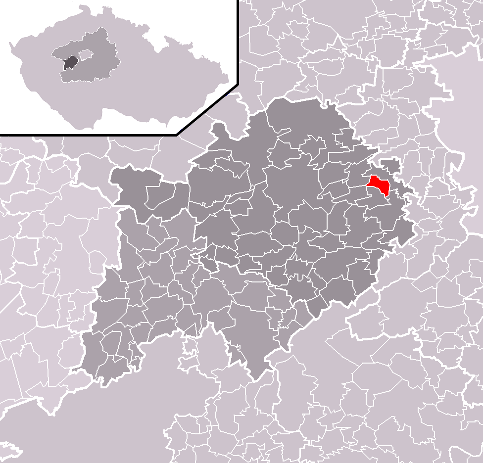 Location of Lužce municipality within Beroun District and administrative area of Beroun as a Municipality with Extended Competence.